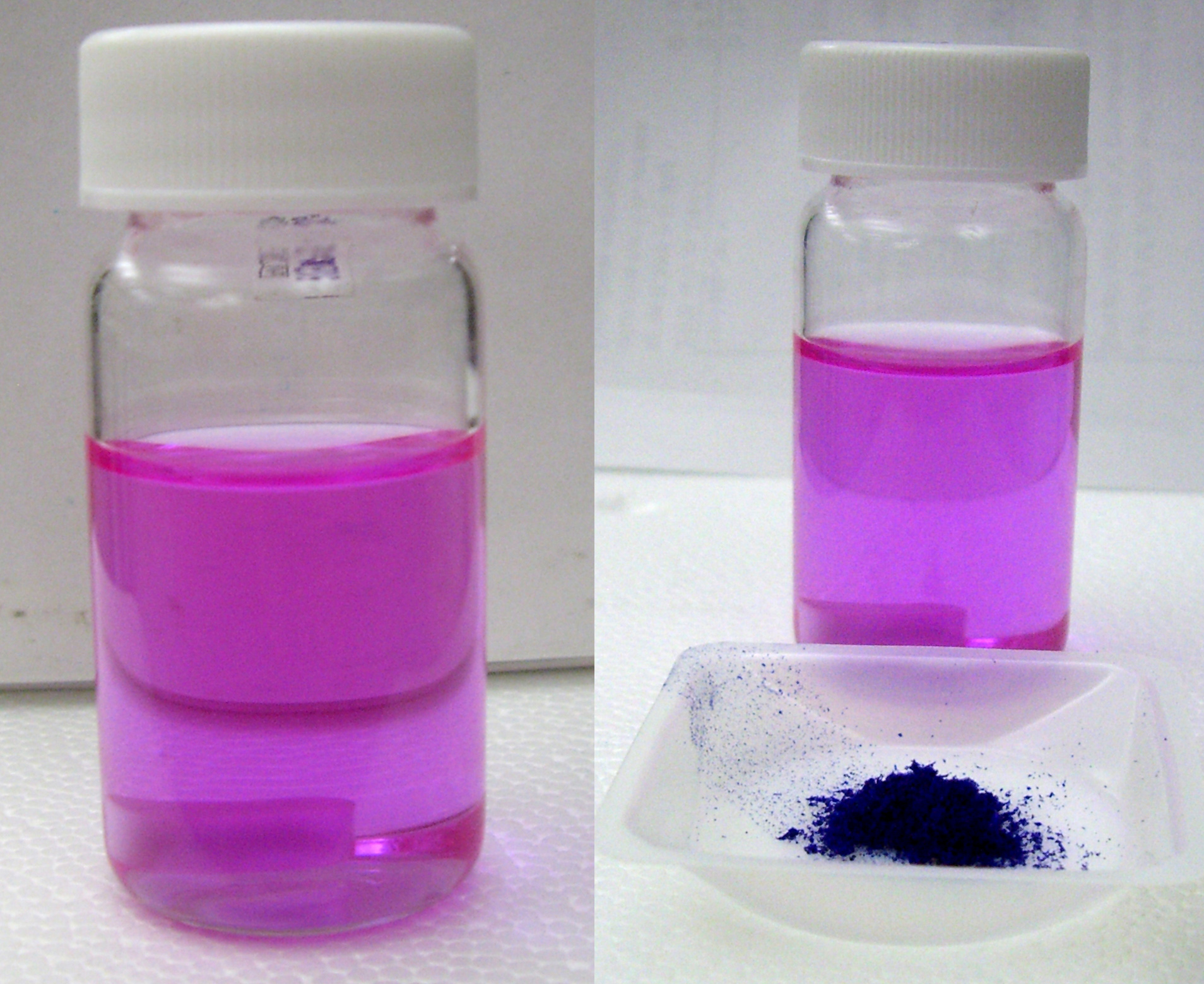 Texas Red in solution and powder (While the color can change a bit with lighting and color balance, this is pretty close to the original color of the solution.)